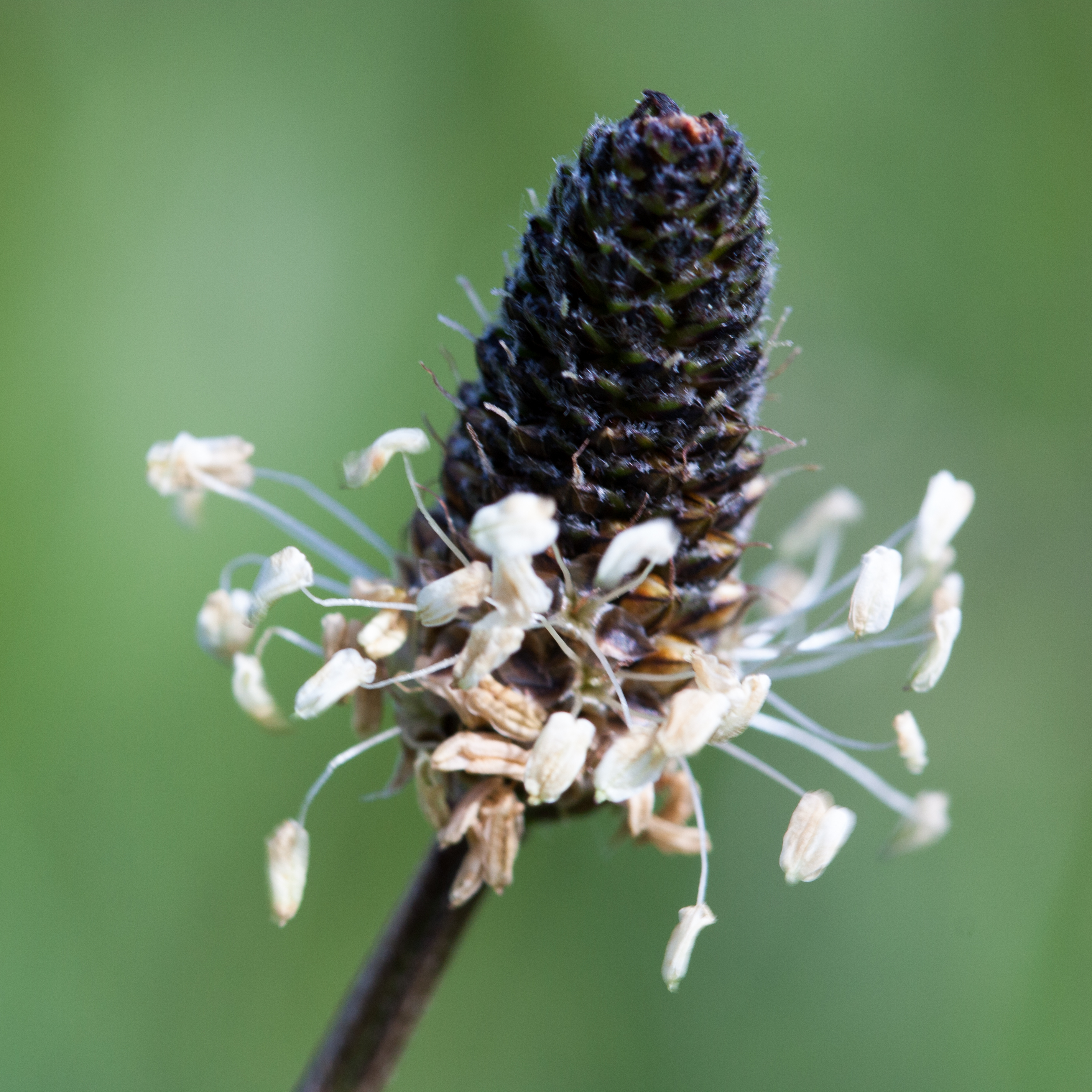 The ribwort plantain (Plantago lanceolata L.) is a common weed. Photo taken in Brittany (France).